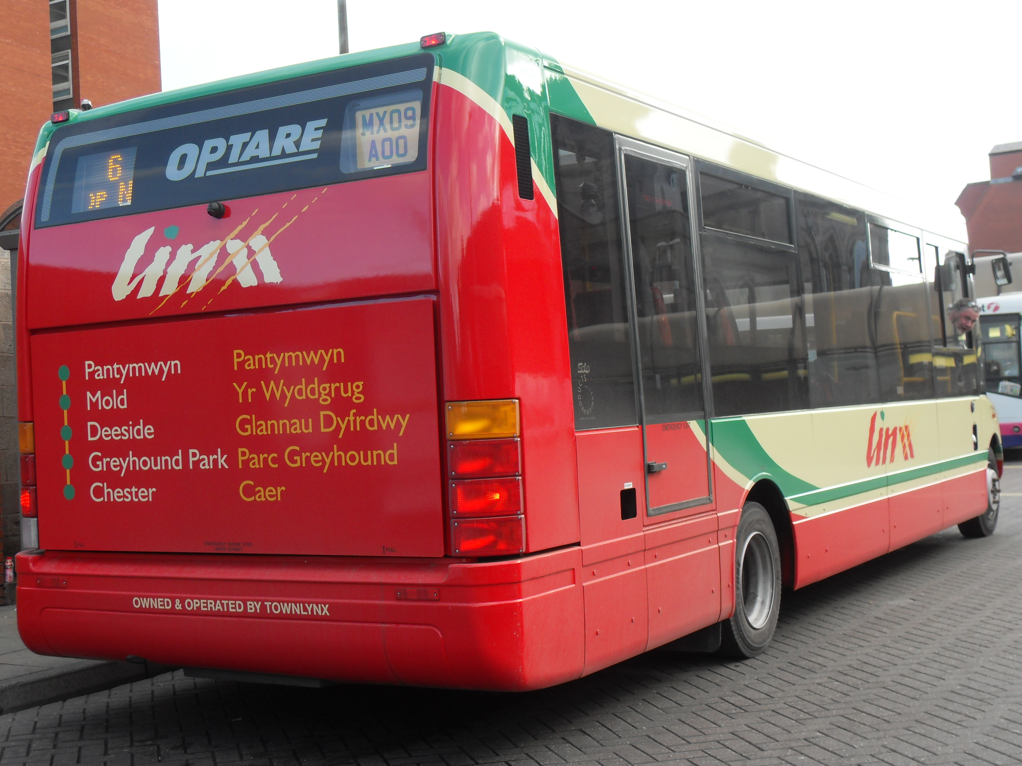 Townlynx bus (reg. MX09 AOO), a 2009 Optare Solo M880 midibus, pictured in Chester Bus Exchange.